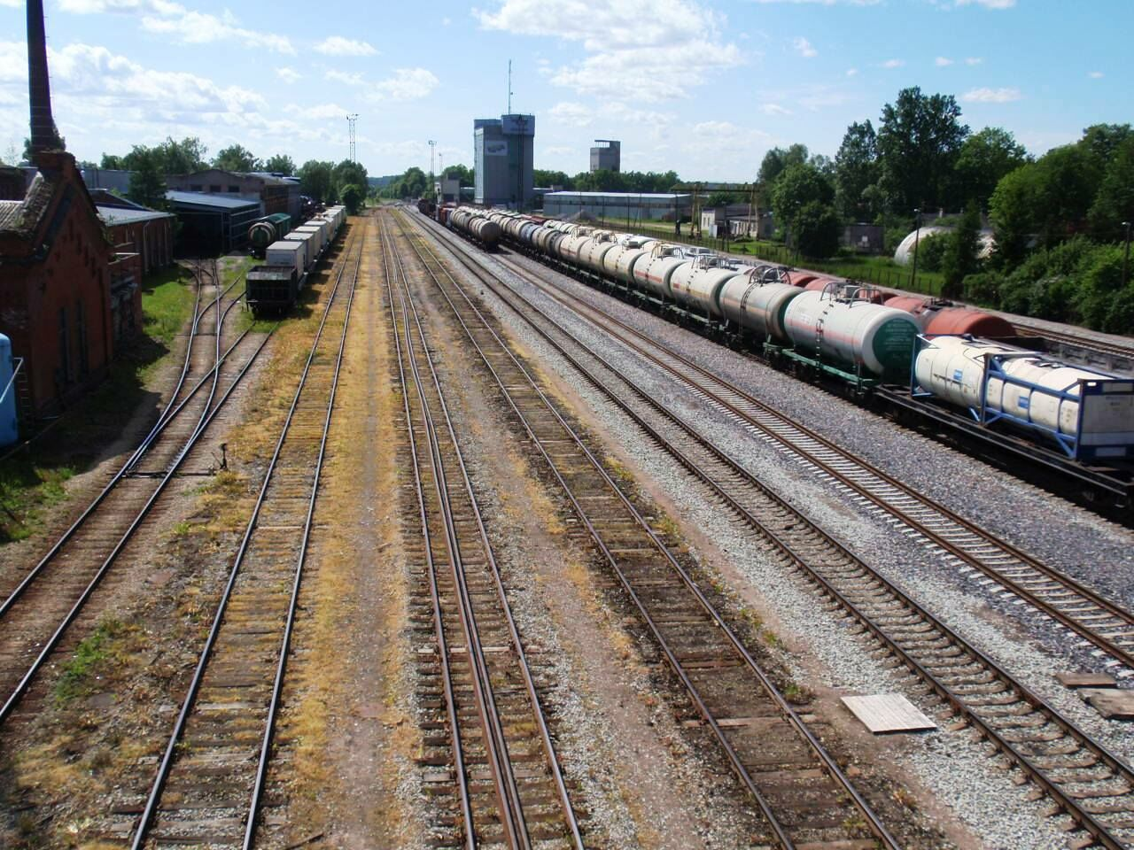 Valga railway station